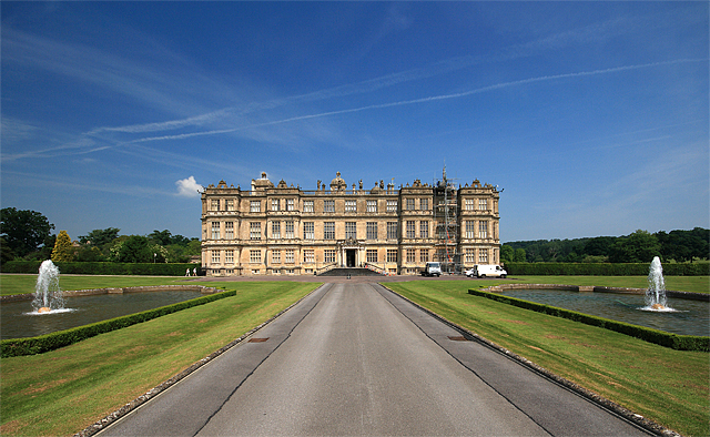 Longleat House from the south east Substantially completed in 1580 for Sir John Thynne, the house has been described as one of Britain's finest examples of high Elizabethan architecture. The frontage of the house extends for 220 feet, and the sides to 180. It was the first stately home in Britain to open to the public, which it did in 1949, and is the ancestral home of the Marquis of Bath. Grade I Listed.